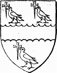 Azure, a fesse engrailed, between three pigeons, each having in the beak a cross formée fitchée, all Or. Coat of arms of Sir John Port of Etwall, Derbyshire. From Magna Britannia: volume 5 Author Daniel and Samuel Lysons